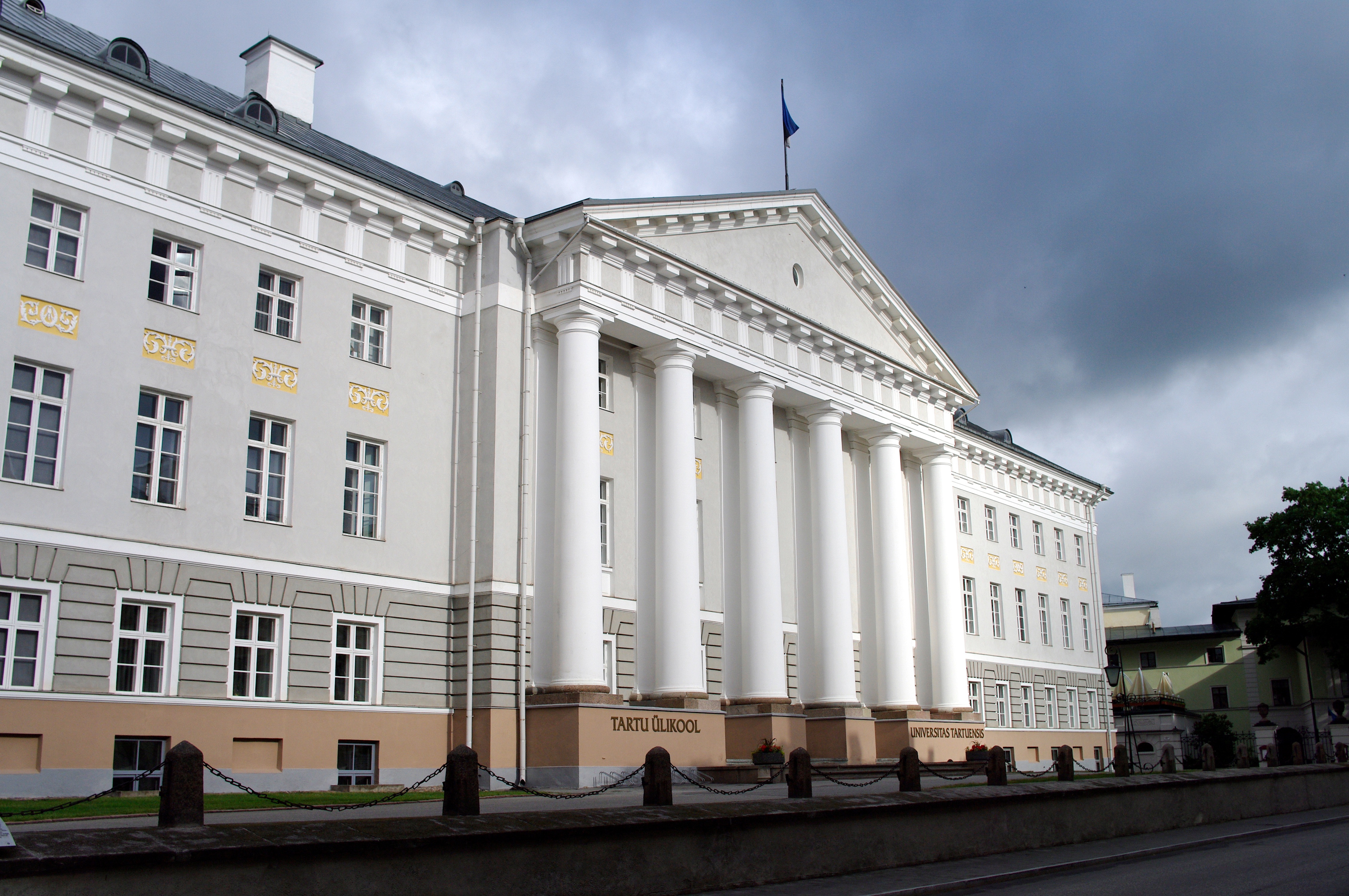 The main building of University of Tartu, Estonia.